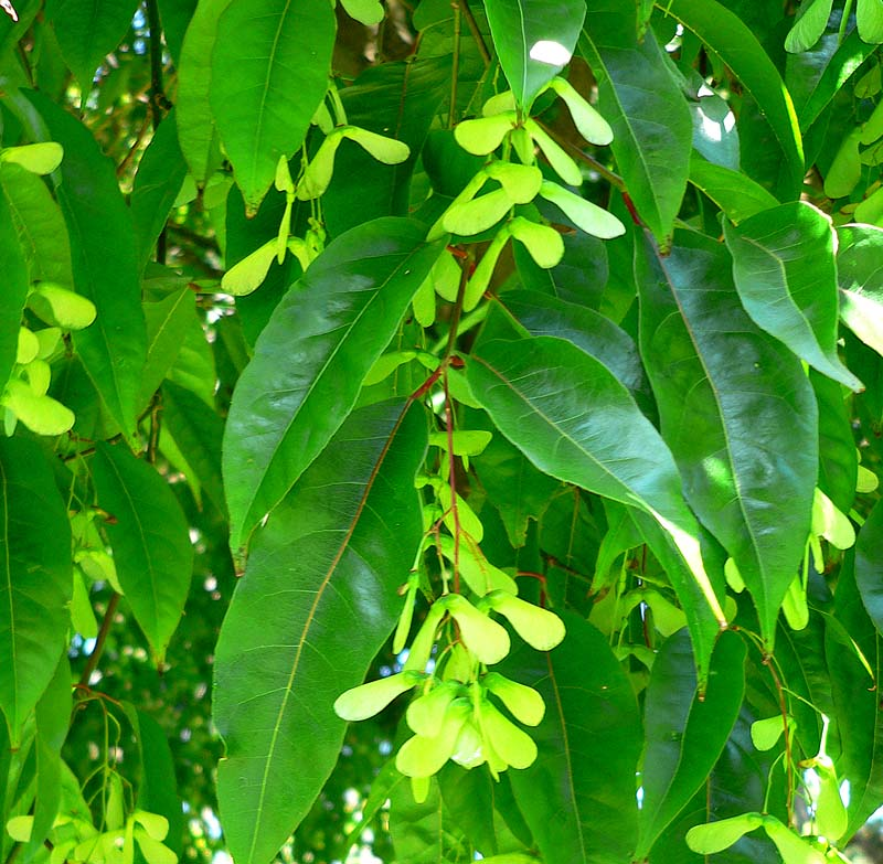 Photo of Acer laevigatum at the San Francisco Botanical Garden